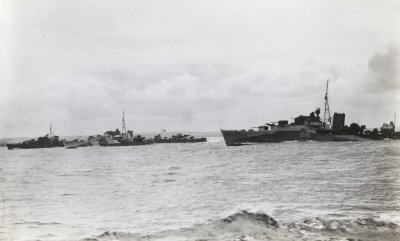 A division in a quarter line of three destroyers: (right - left) HMS Nonpareil (Hr. Ms. Tjerk Hiddes), HMS Offa and HMS Norseman at Scapa Flow during preparations for the Second Front.